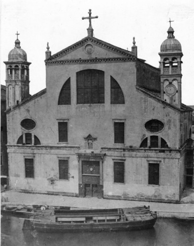 Facade of the Church of Santa Lucia, Venice, just before its demolition in 1861. Venice, Museo Correr.